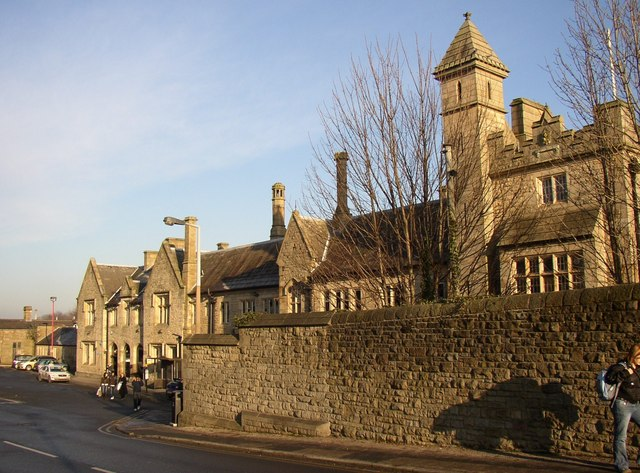 South front of Lancaster Station, Lancaster